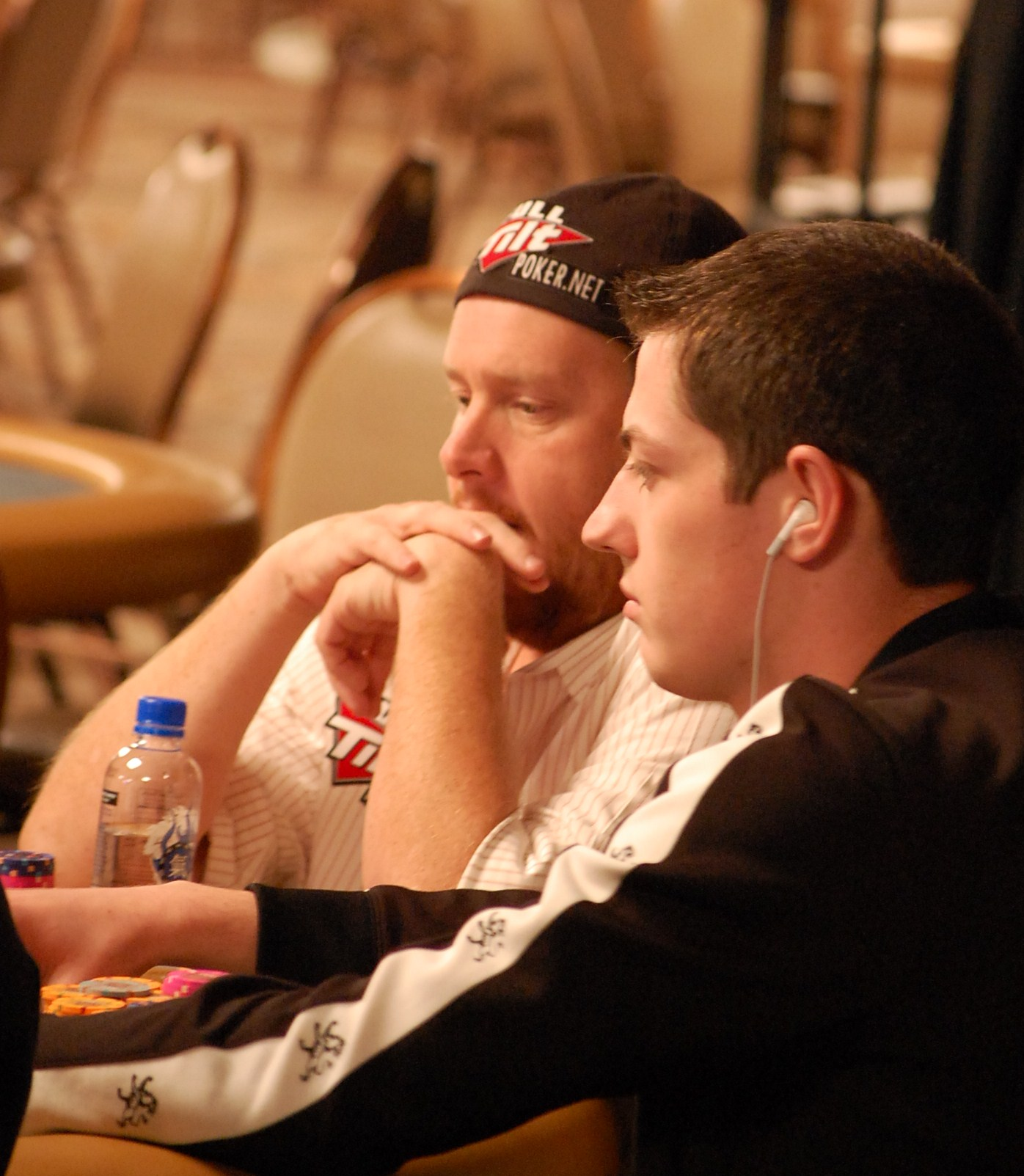 Tom Dwan and Gavin Smith playing at the 2008 World Series of Poker